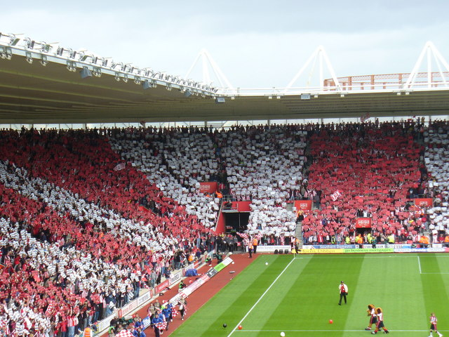 Red and White Stripes at St Mary's Stadium. Fans holding up red and white cards replicate the stripes of the home team, Southampton FC, before the Championship play-off semi-final against Derby County in 2007.